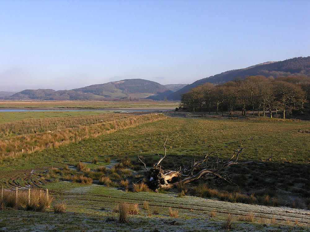 Field near Domen Las The tree-covered mound on which the ancient fort is built can be seen on the right, and is a favoured nesting spot for herons. The field provides somewhat damp grazing.